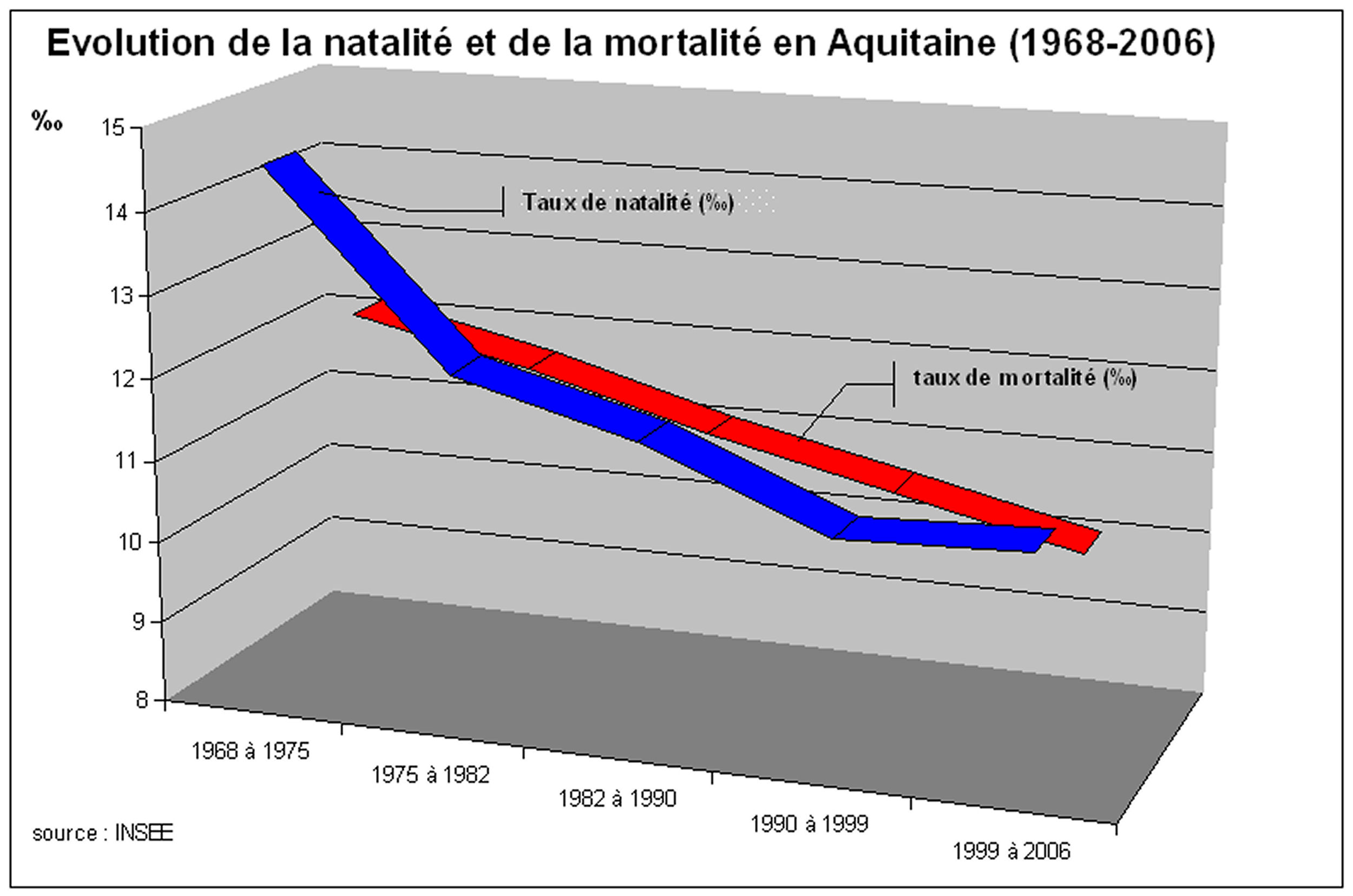 Changes in birth rates and mortality in Aquitaine (1968-2006)